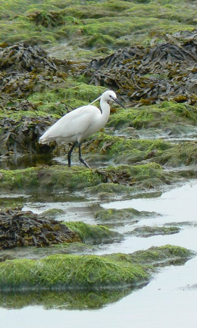 Little Egret Little Egret on the beach at Bembridge